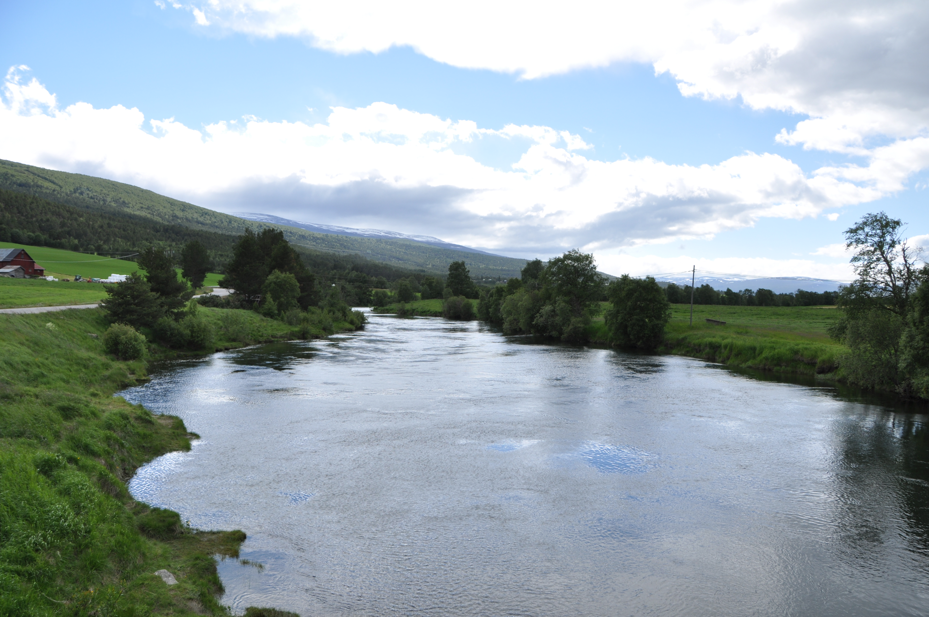 Gudbrandsdalslågen river at Lesja, previously outflow of Lesja lake.